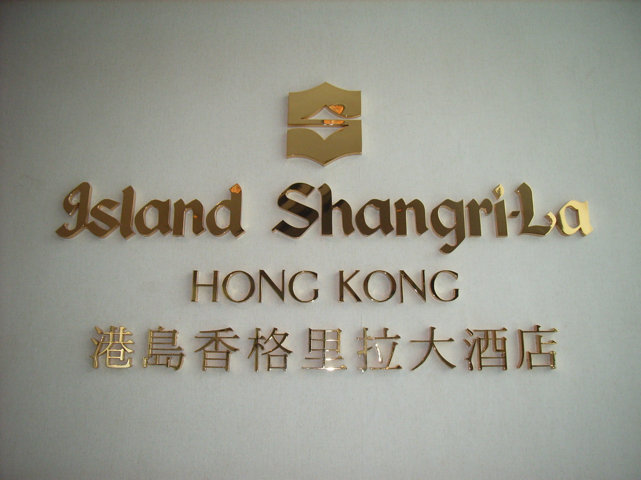 Island Shangri-La, Hong Kong, hotel photo by QWB656